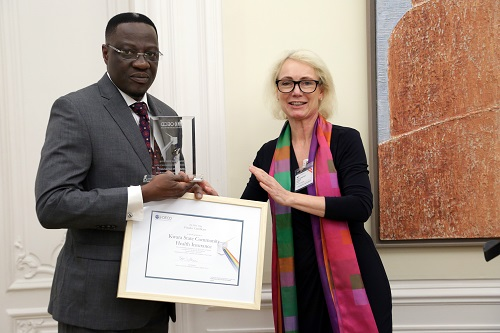 07 Octobre 2014. The development Co-operation Report 2014 Photo : Herve Cortinat / OECD